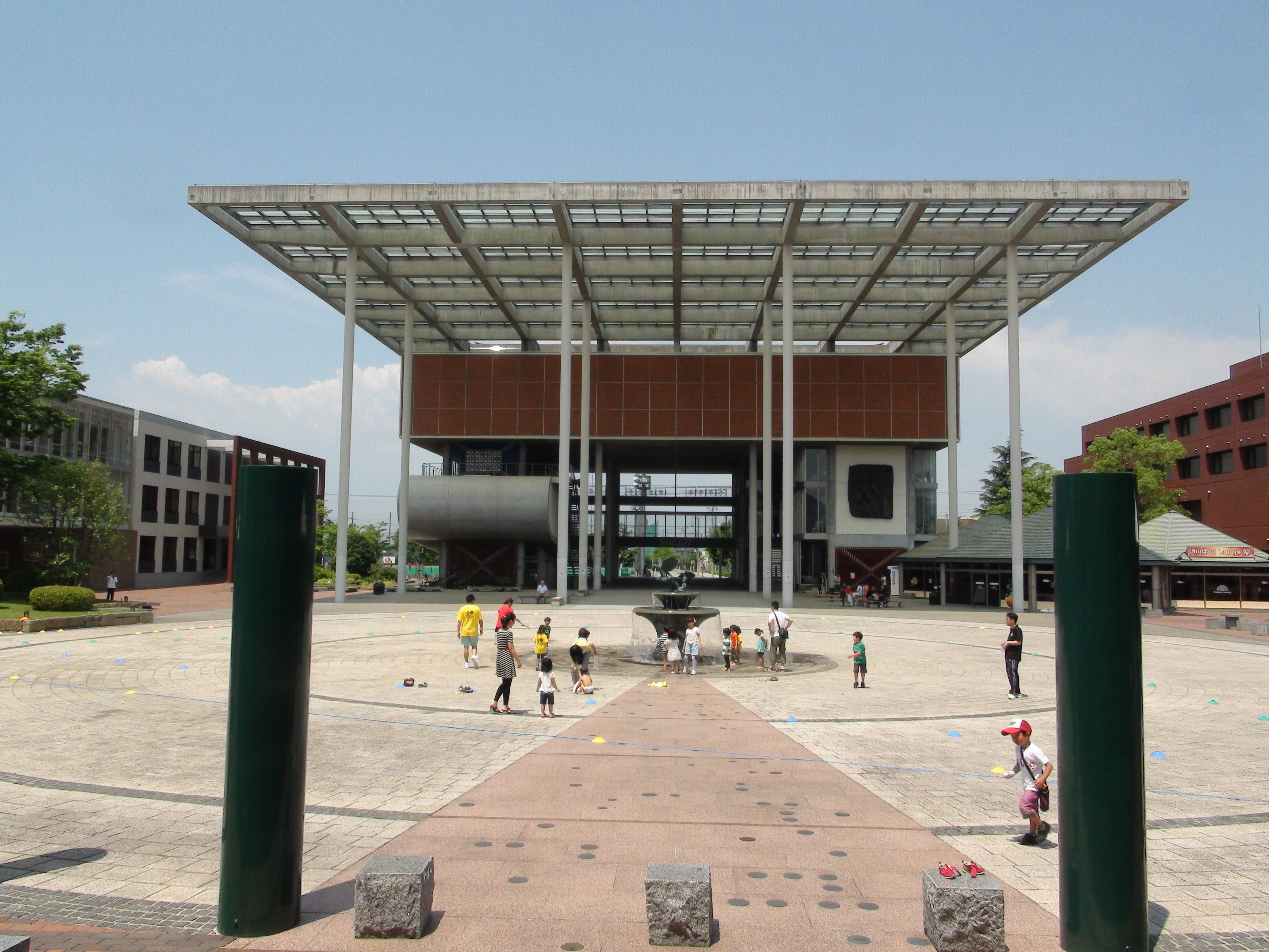 Yamanashi Gakuin University campus center.May.2014